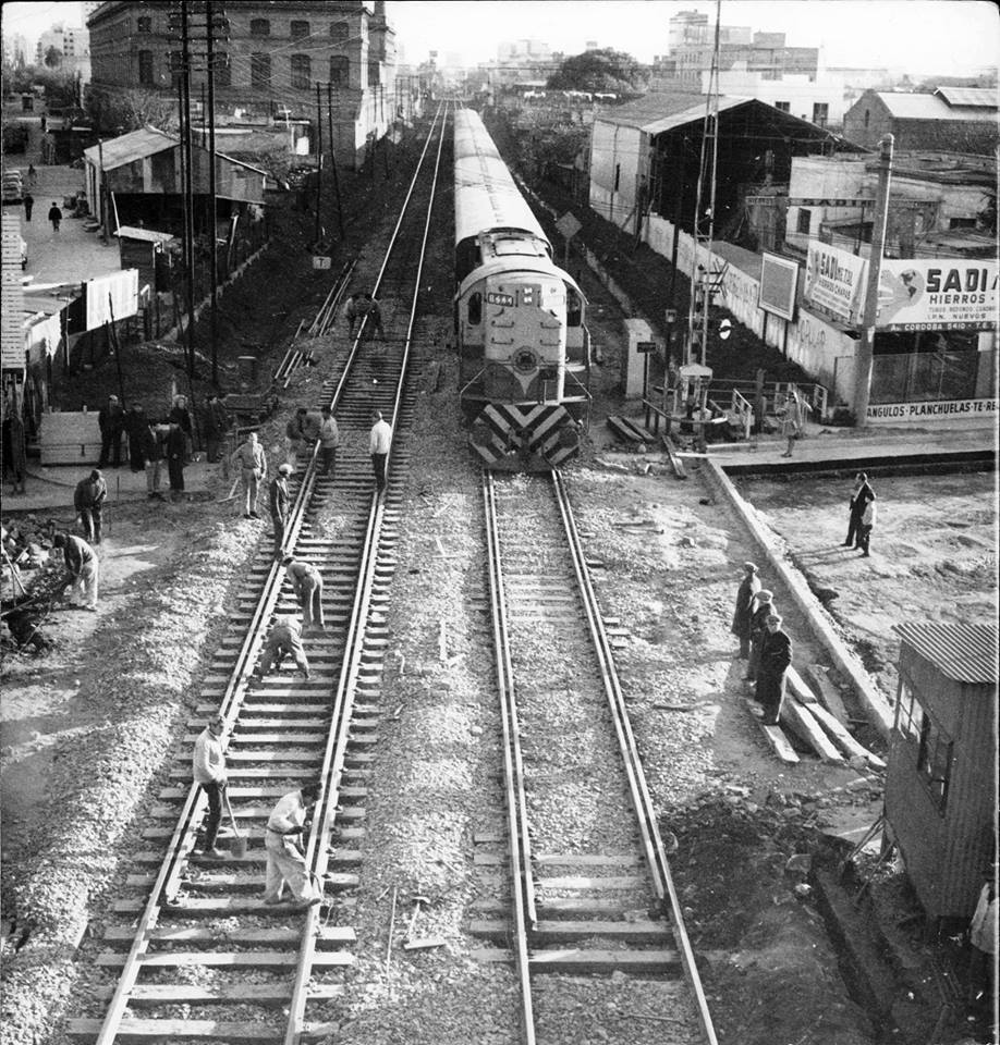 Level crossing at Av. Córdoba and Ferrocarril San Martín rail tracks, where a passenger train is about to cross the avenue. A grade crossing signal by GRS is also showed in the image.